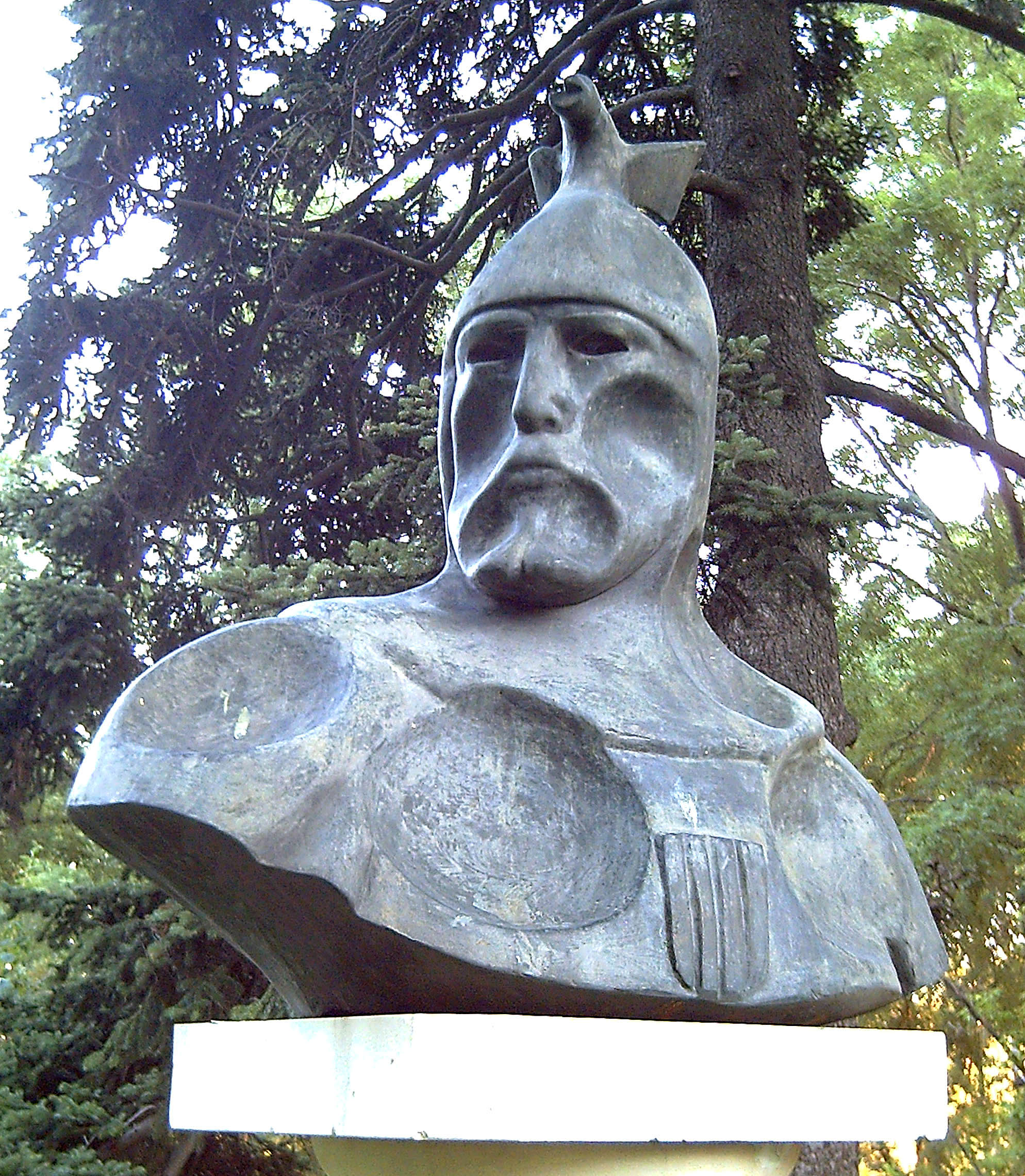 Monument to James I of Aragon